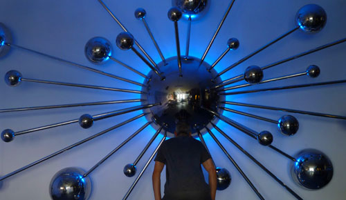 Globalexandria, 2012, installation view, polished stainless steel